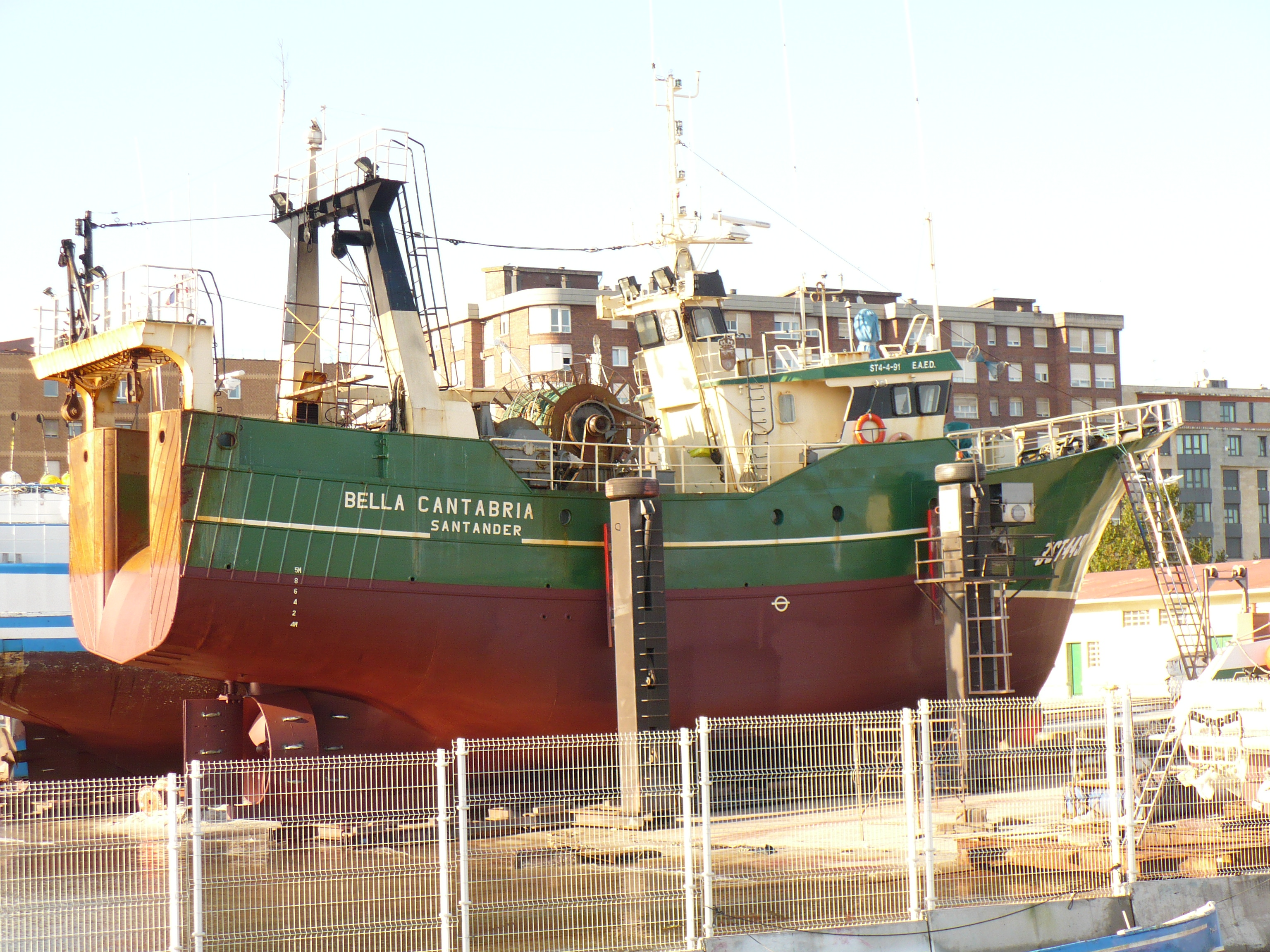 Trawler being repaired at Barrio Pesquero (Santandé, Cantabria)